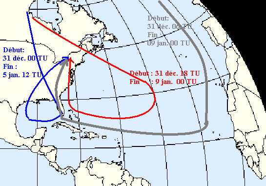 Trajectory of the air masses that affected Eastern North America of the North American ice storm of 1998 . They began their journey from the Arctic on December 31st, 1997, at 300 mb altitude, moved equatorward while coming down to the surface. They then picked up heat and moisture in the sub-tropical Atlantic before moving back to the Great Lakes on January 5th and 9th 1998.